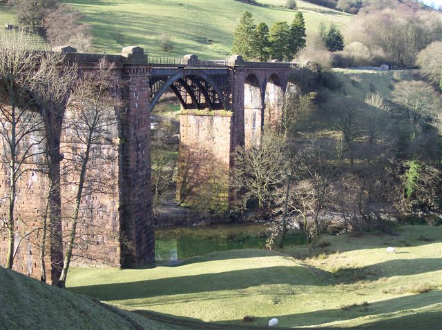 Waterside Viaduct, Sedbergh, Cumbria. This splendid Viaduct is on the disused railway that ran between Clapham Junction (on the Leeds - Morecambe line) and Lowgill on the West Coast Main line. It is 530 ft long and carried the line, closed in 1966, 100 ft above the River Lune. Surprisingly the viaduct is not a listed structure.